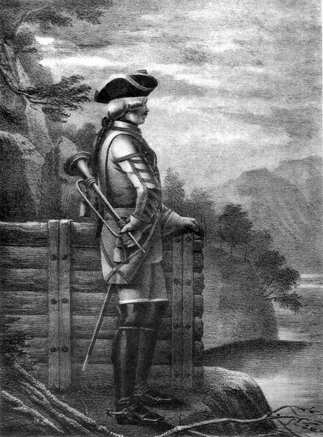 Russian trumpeter of cuirassier regiment (parade uniform) 1756-1761. Book illustrations of Historical description of the clothes and weapons of Russian troops.